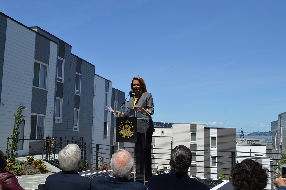 Congresswoman Pelosi joins Mayor Ed Lee, Board of Supervisors President London Breed, Supervisor Malia Cohen, and the Hunters View Community as they celebrate the ongoing revitalization of Hunters View, where all former residents who wished to stay are living in their new homes.